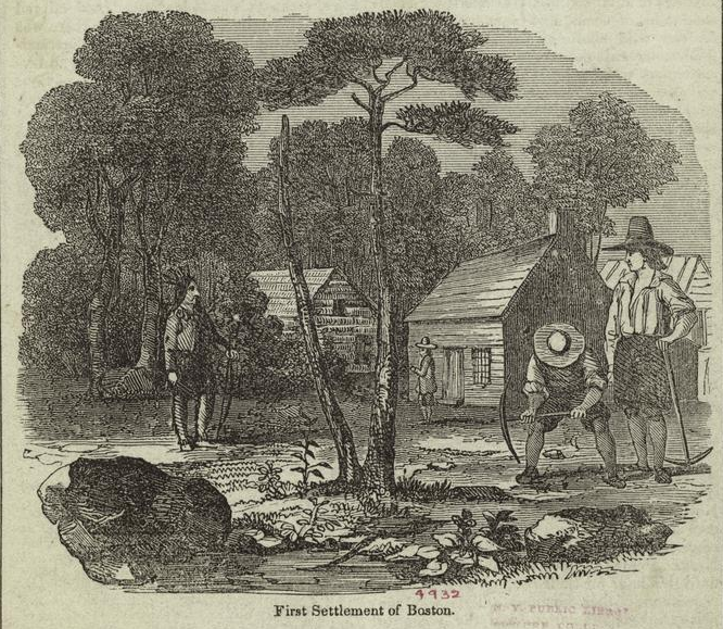 First settlement in Boston